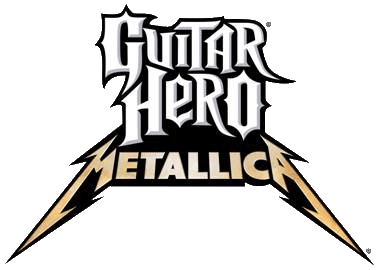 Guitar Hero: Metallica's logo, made using Nightmare Hero and Metallica fonts.